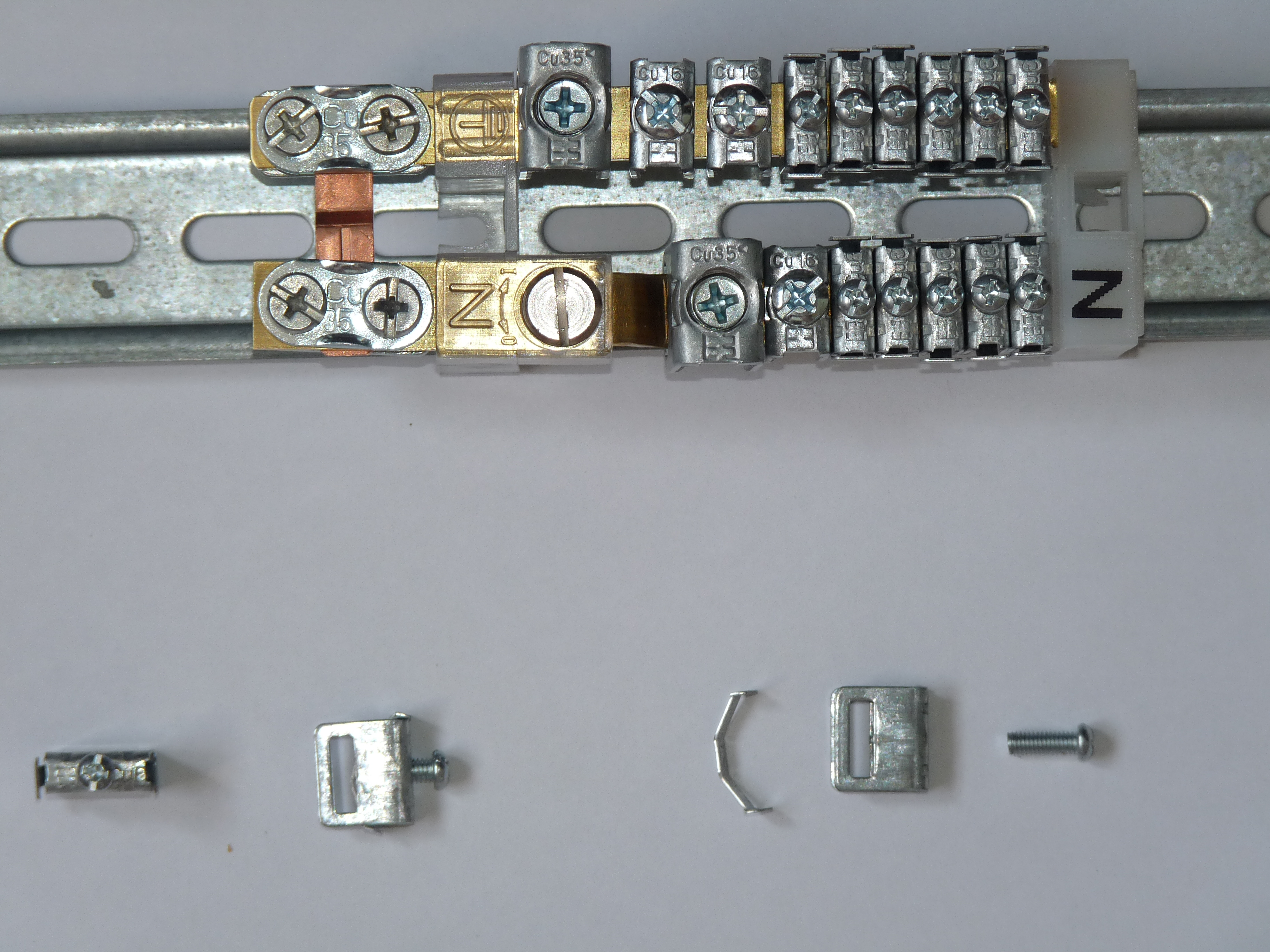 If you see main distribution board in building, you'll see 4 wires coming from substation and 5 wires outgoing to consumer. How it is possible? -There comes 4-wired cable where 1 is wire is PEN (earth and zero combined to 1 wire) and PEN seperates to PE (earth) and zero (neutral) pole on the main earthing block of terminals (left copper bridge between busbars). Length of it could be variable, cause you can put short block of terminals to connect wires you are using nowadays; but if you have lot of money and don't know where to spend it, you can put block of terminals with 100 or 200 terminals (if distribution board's dimensions allow to put it).